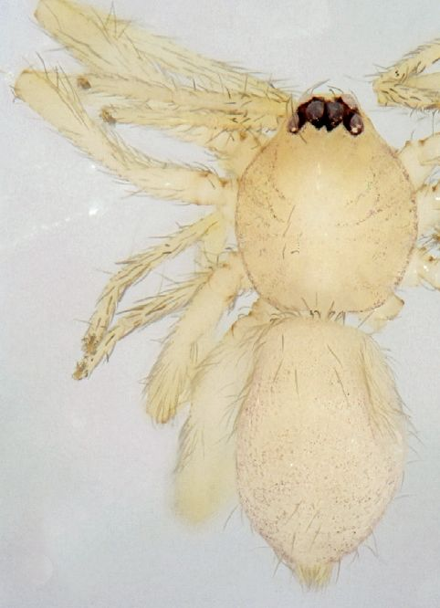 Tapinesthis inermis, dorsal view of male.